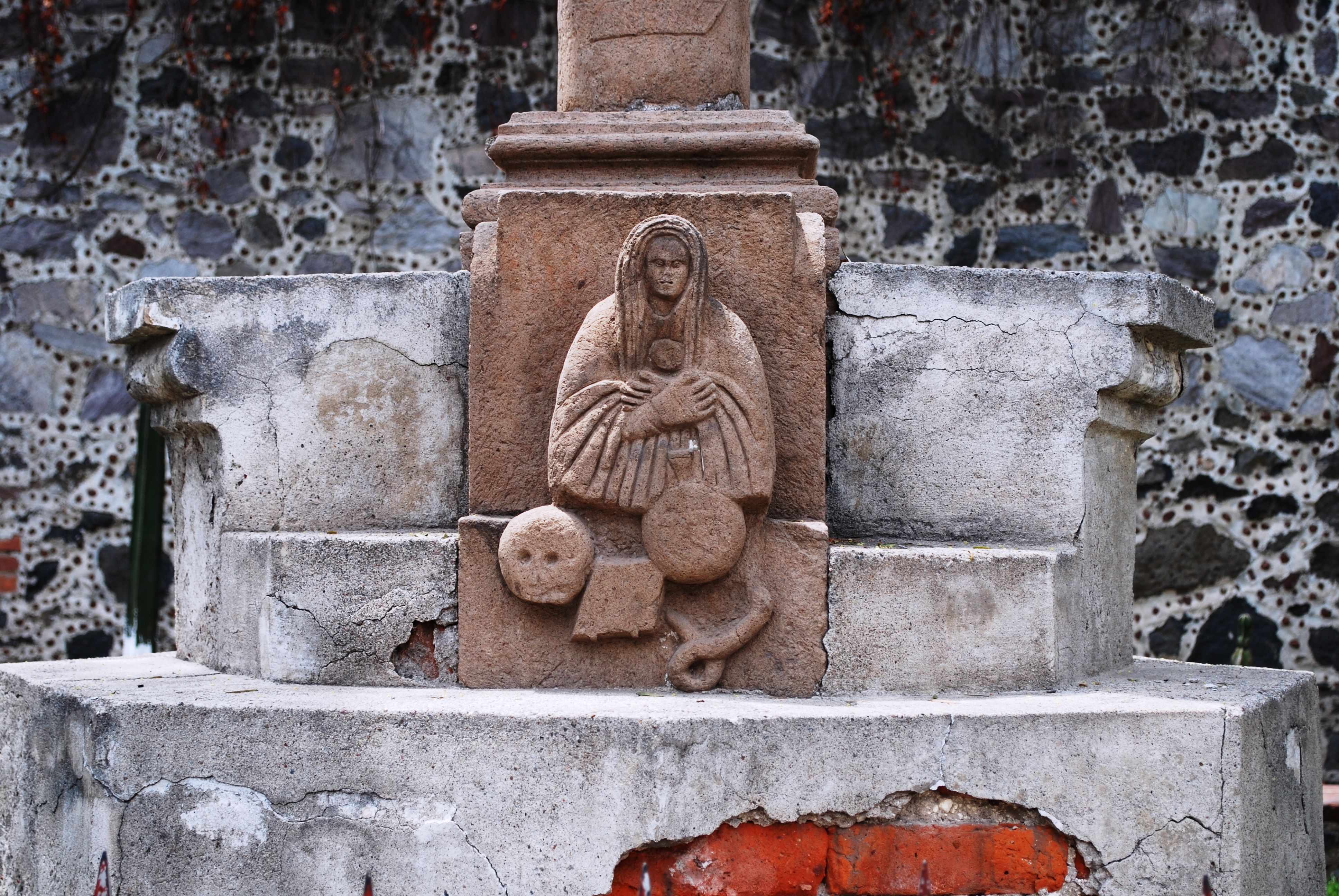 Image of Virgin Mary at base of the atrium cross of the former monastery of Acolman, Mexico State